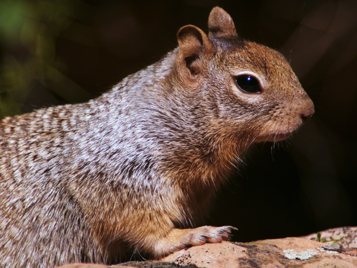 Spermophilus variegatus at Zion National Park